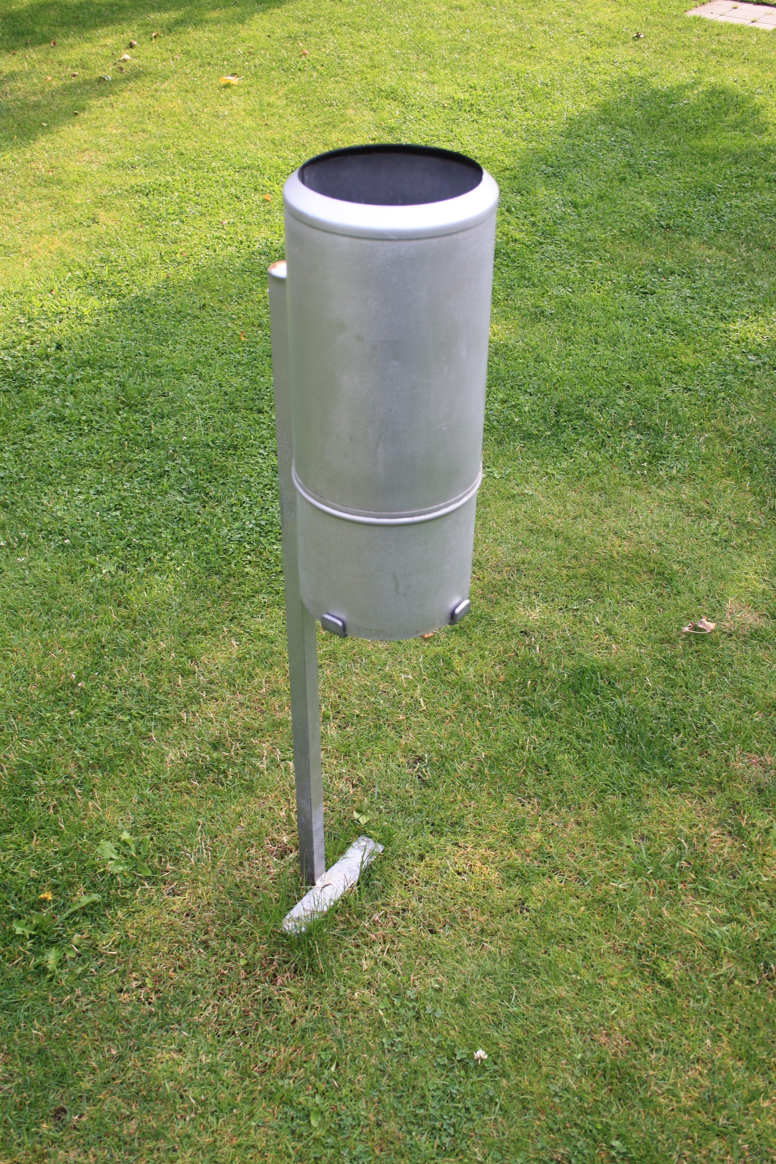 Rain gauge according to Hellmann (standard instrument for precipitation measuring in Germany)